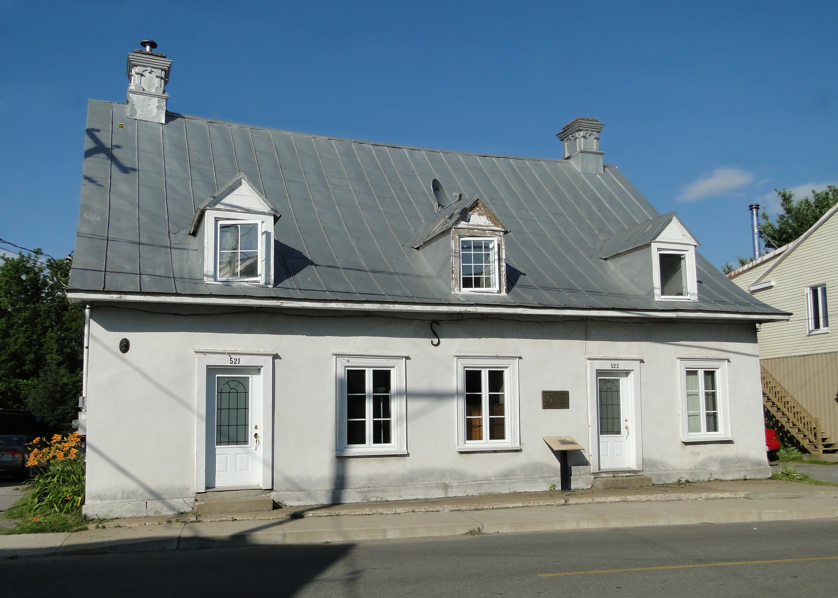 Maison Gouin, Sainte-Anne-de-la-Pérade, Quebec, Canada